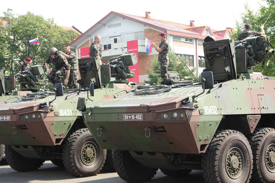 74th Motorized Battalion started the regular training of battalion members with 13 medium wheeled armoured vehicles 8 x 8 at the General Maister Military Post in Maribor